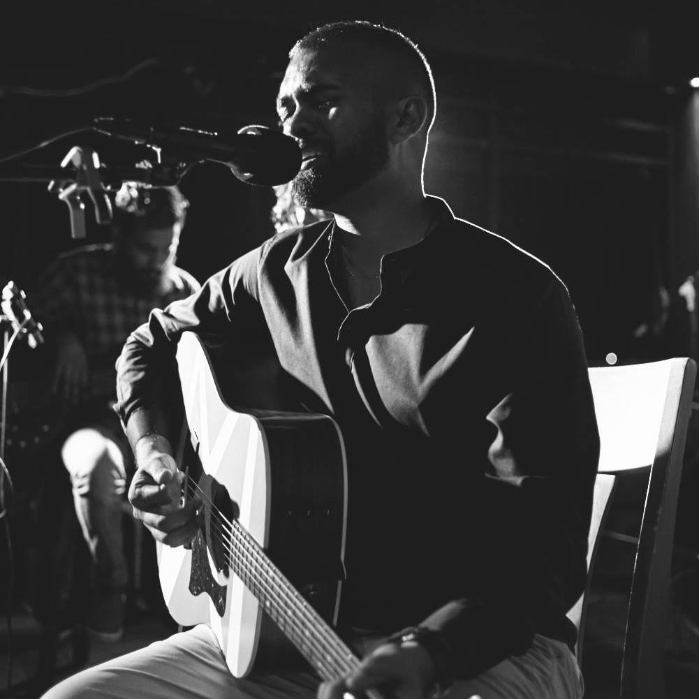 Mooshan September 2015